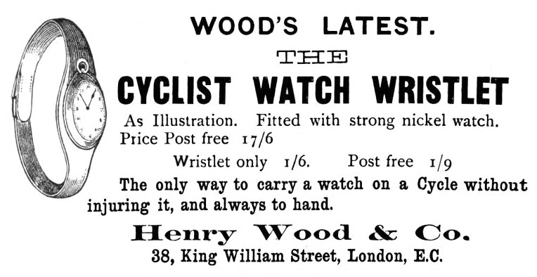 Advert for a cyclist watch wristlet (wristwatch for cyclists) by Henry Wood & Co., London, from Amateur Cyclist, 1893.